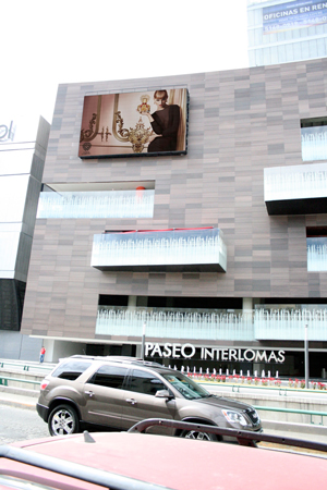 This Screen has the resolution of 512 x 320 Pixeles with a Pitch of 25mm. The whole Screen consists of 64 cabinets.